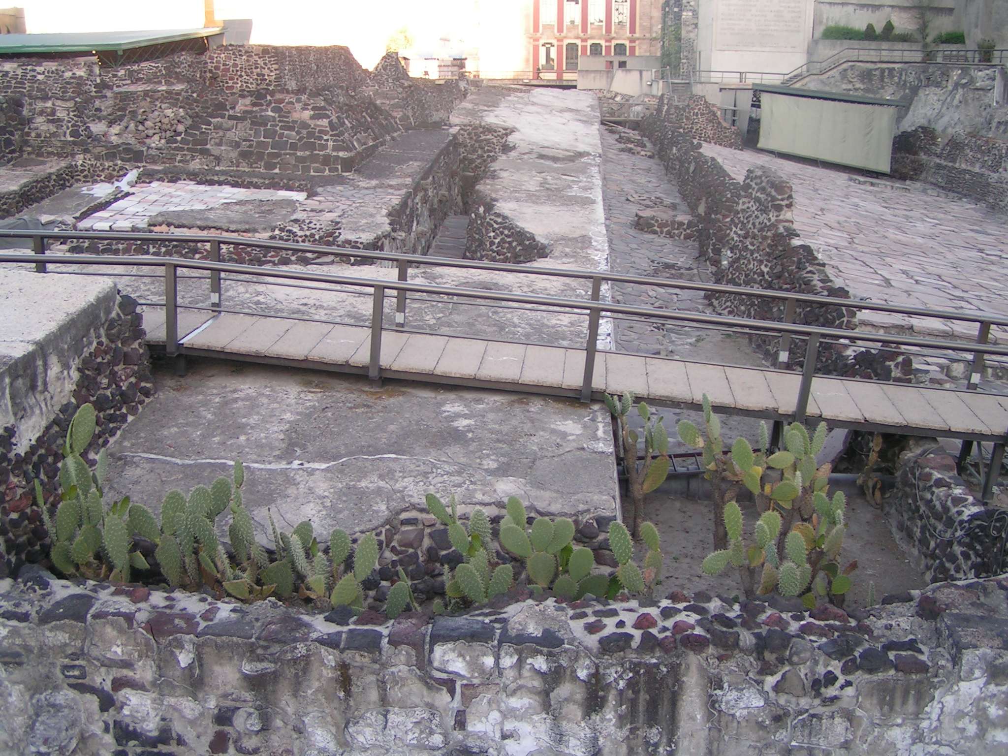 Description: Ruins of Tenochtitlan, Mexico City Source: Picture taken by Jan Zatko, March the 17th, 2005